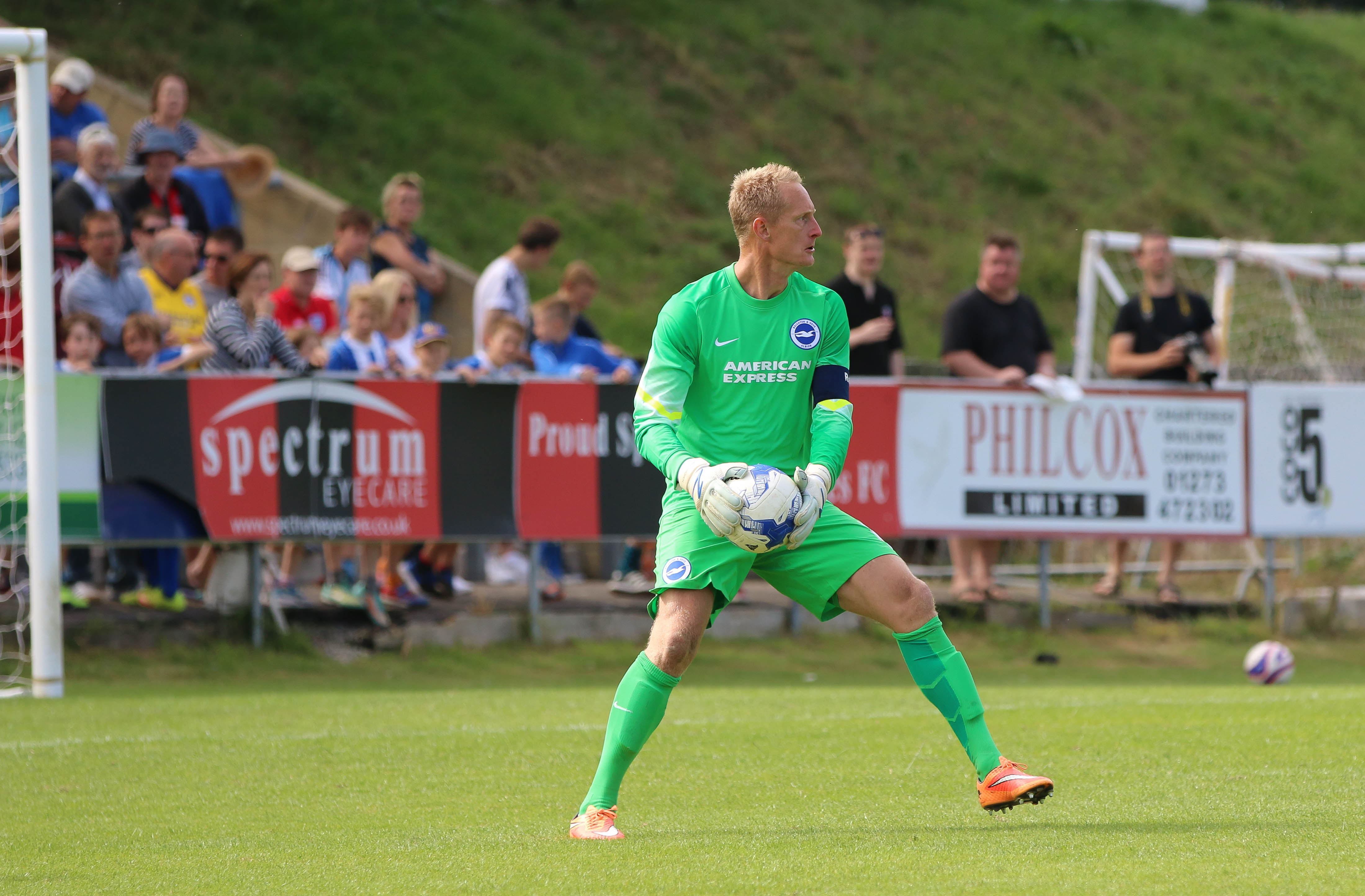 Lewes 0 BHA 0 18 July 2015-1006.jpg